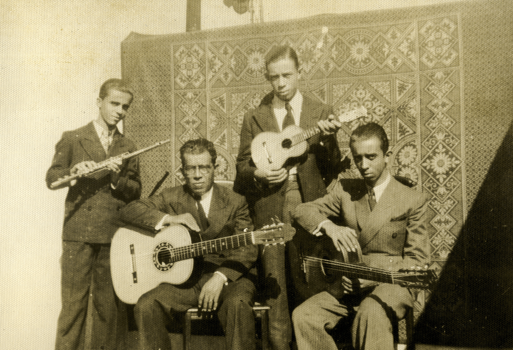 Neuwaldo Teixeira, Edgard Carlos Teixeira, Valzinho (Norival Carlos Teixeira) e Newton Teixeira